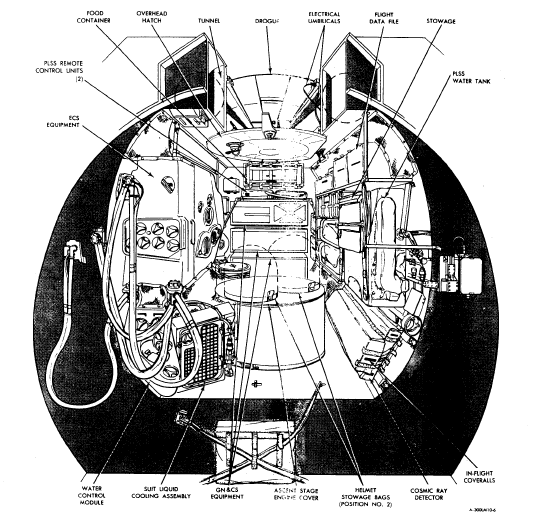 Apollo Lunar Module (LM) cabin interior (looking aft)